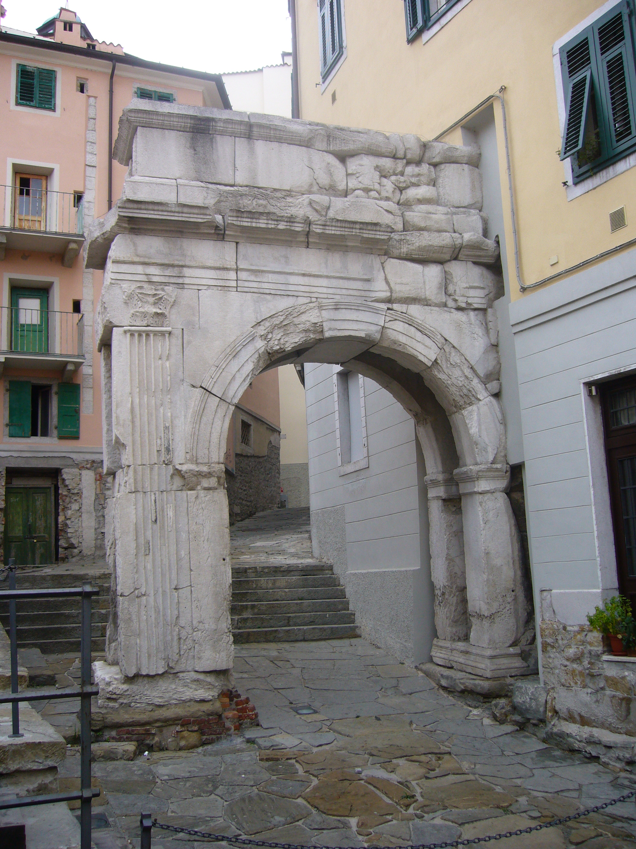 Roman Gate to Triëst, first century after Chr.